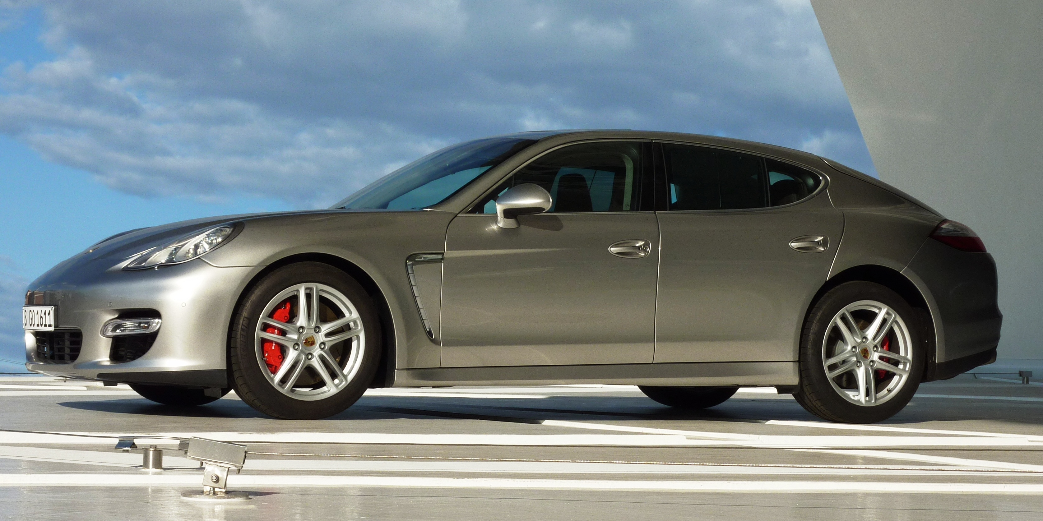 Porsche Panamera outside of the Porsche-Museum in Stuttgart